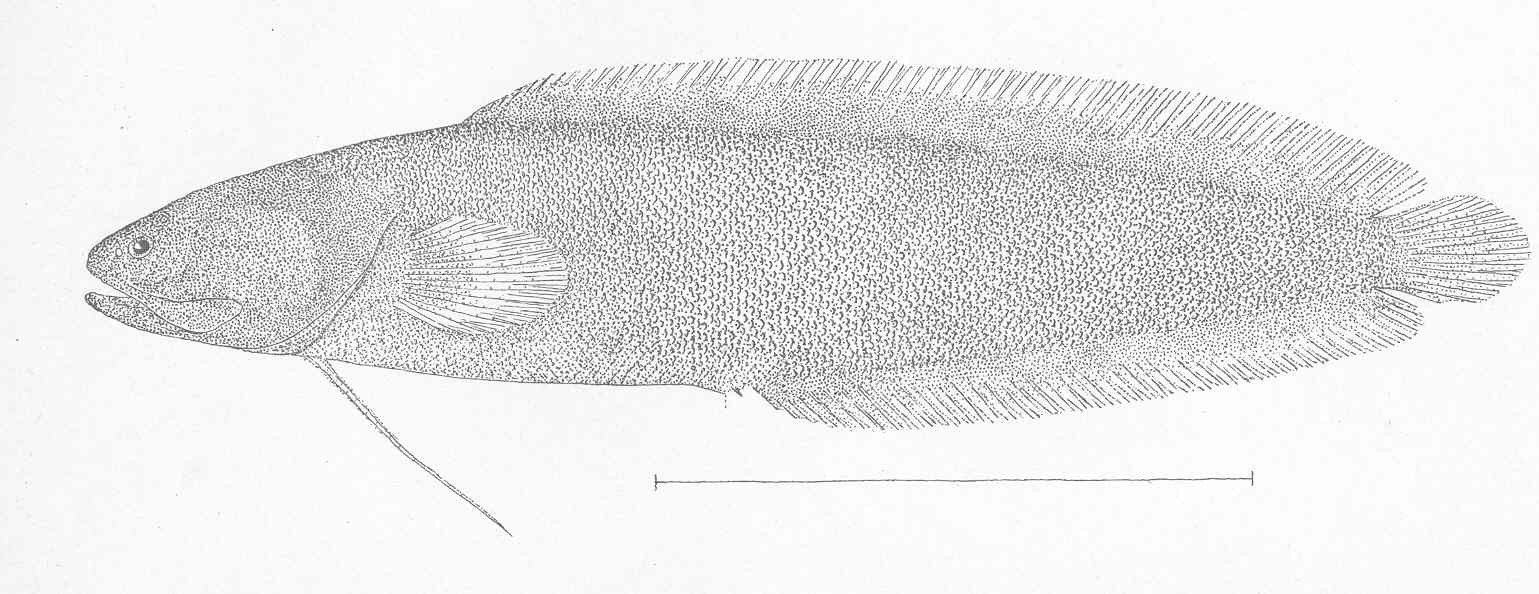 Dinematichthys ventralis Subject: Dinematichthys, Actinopterygii Tag: Fish